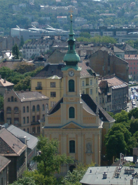 The church of Krisztinaváros from the Castle Hill